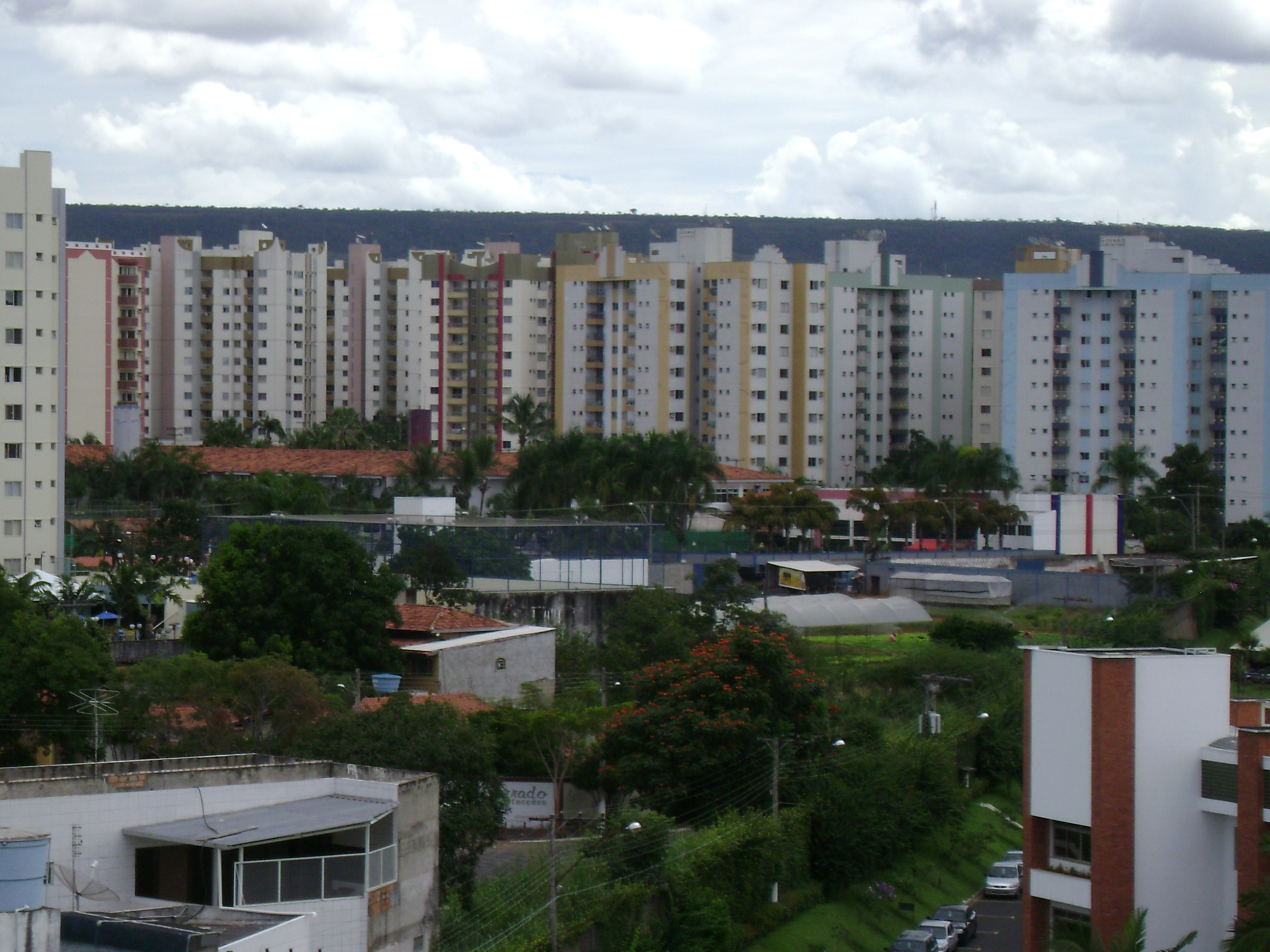 Sight of Caldas Novas, in Goiás, Brazil.